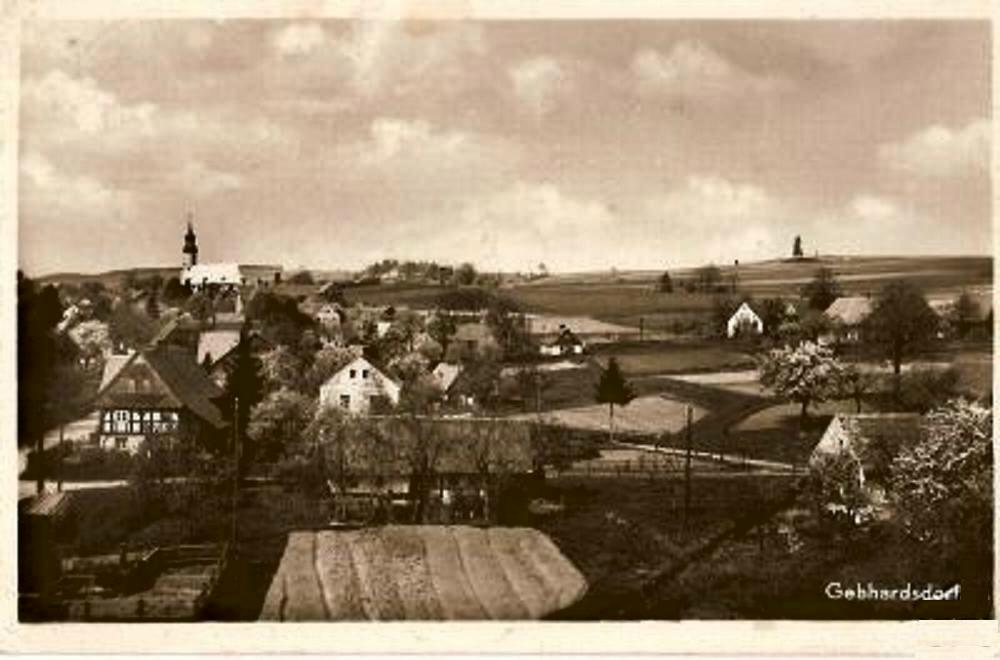 Giebułtów